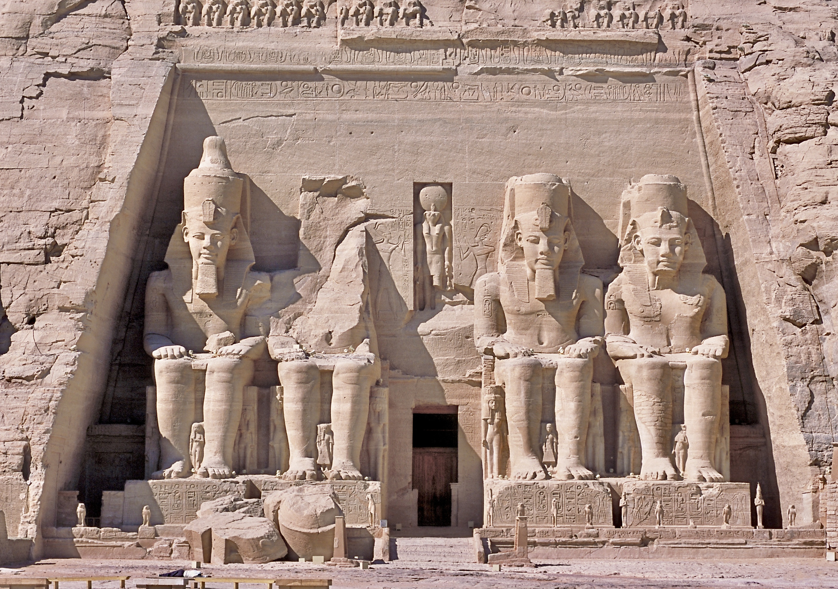 Abu Simbel Temple